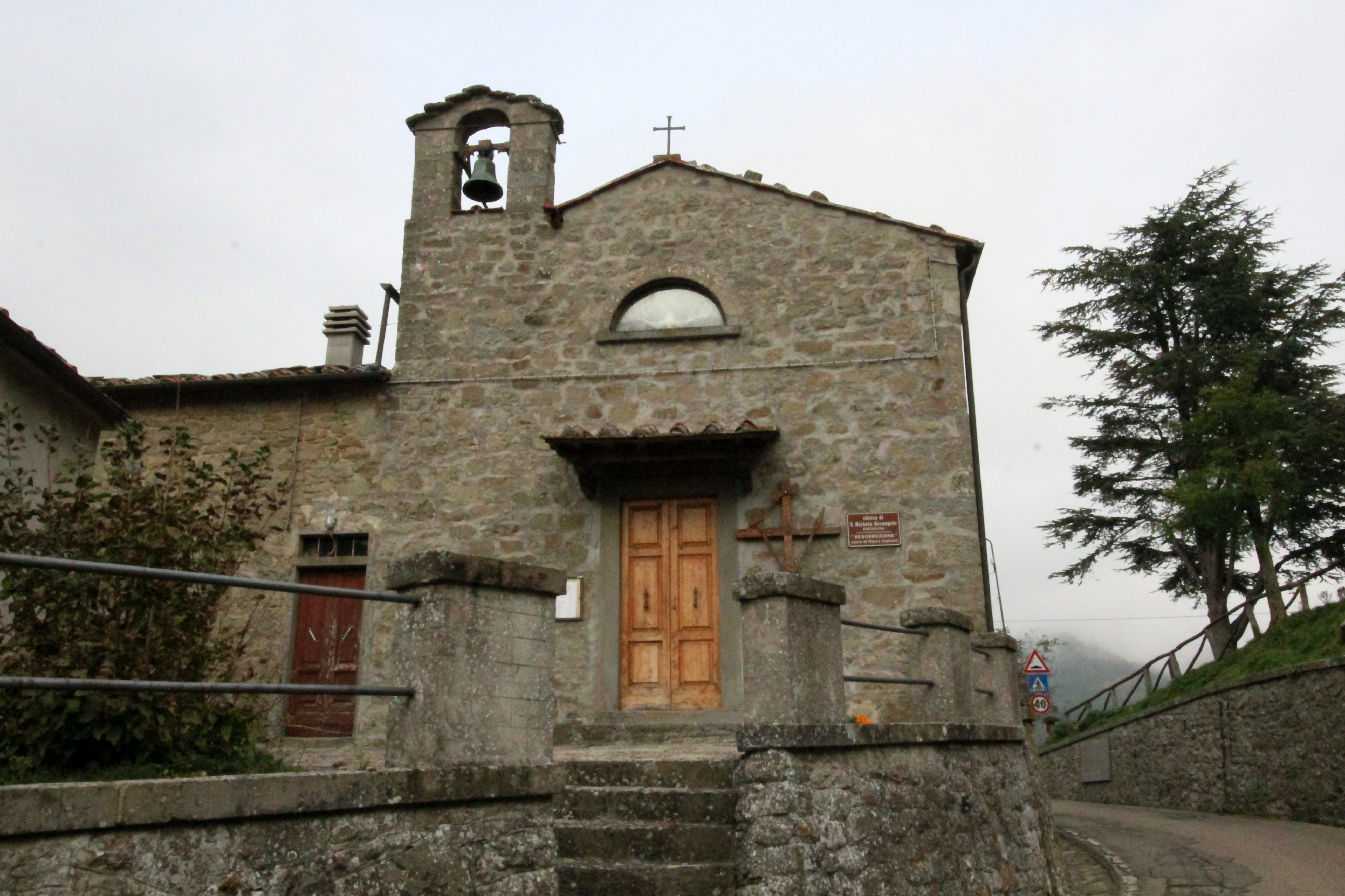 Church San Michele Arcangelo, in Anciolina, hamlet of Loro Ciuffenna, Province of Arezzo, Tuscany, Italy